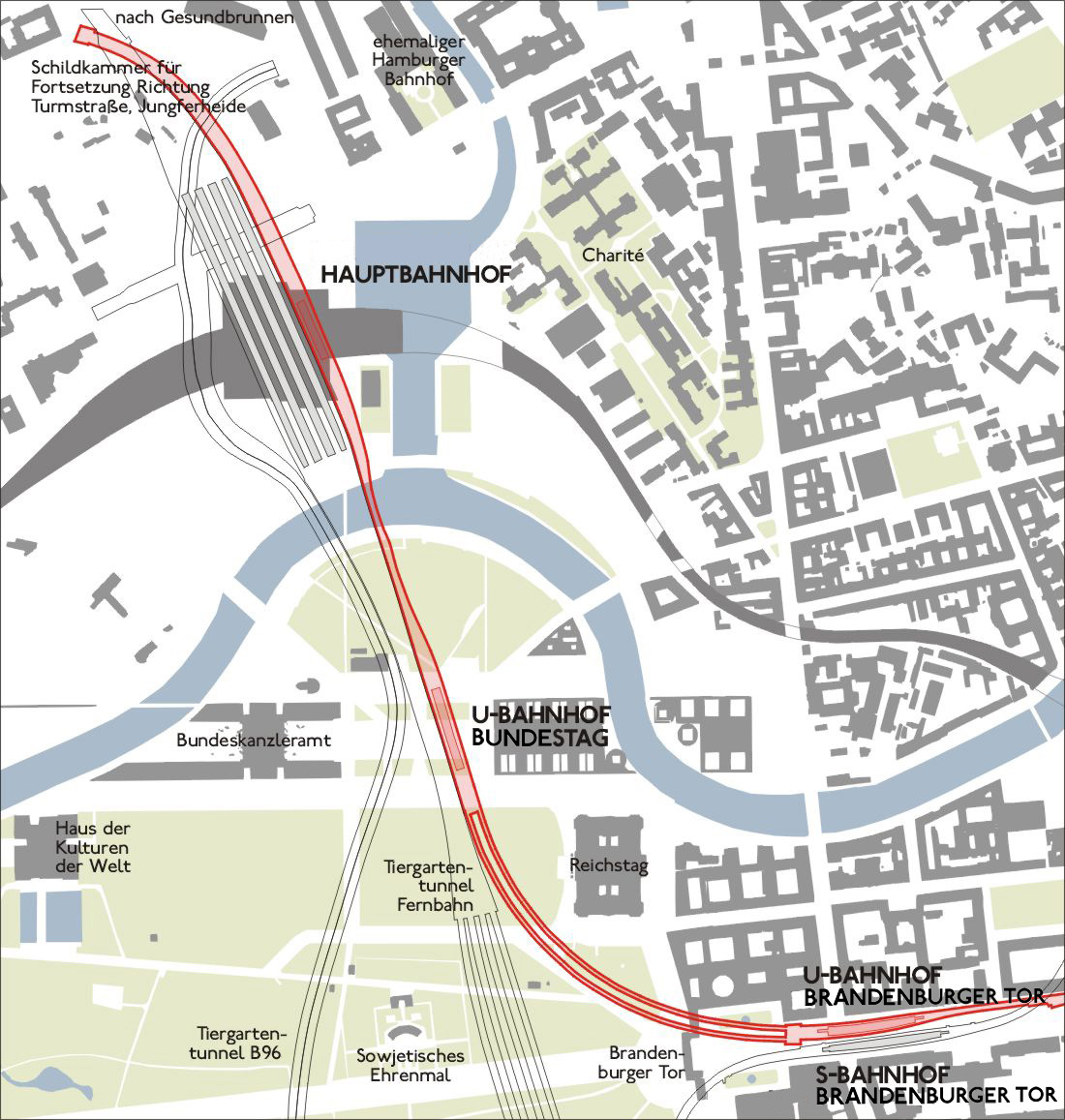 Map of the U55 (Berlin U-Bahn) subway line in Berlin, Germany.